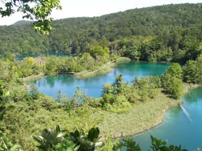 Plitvice Lakes National Park (Croatia).